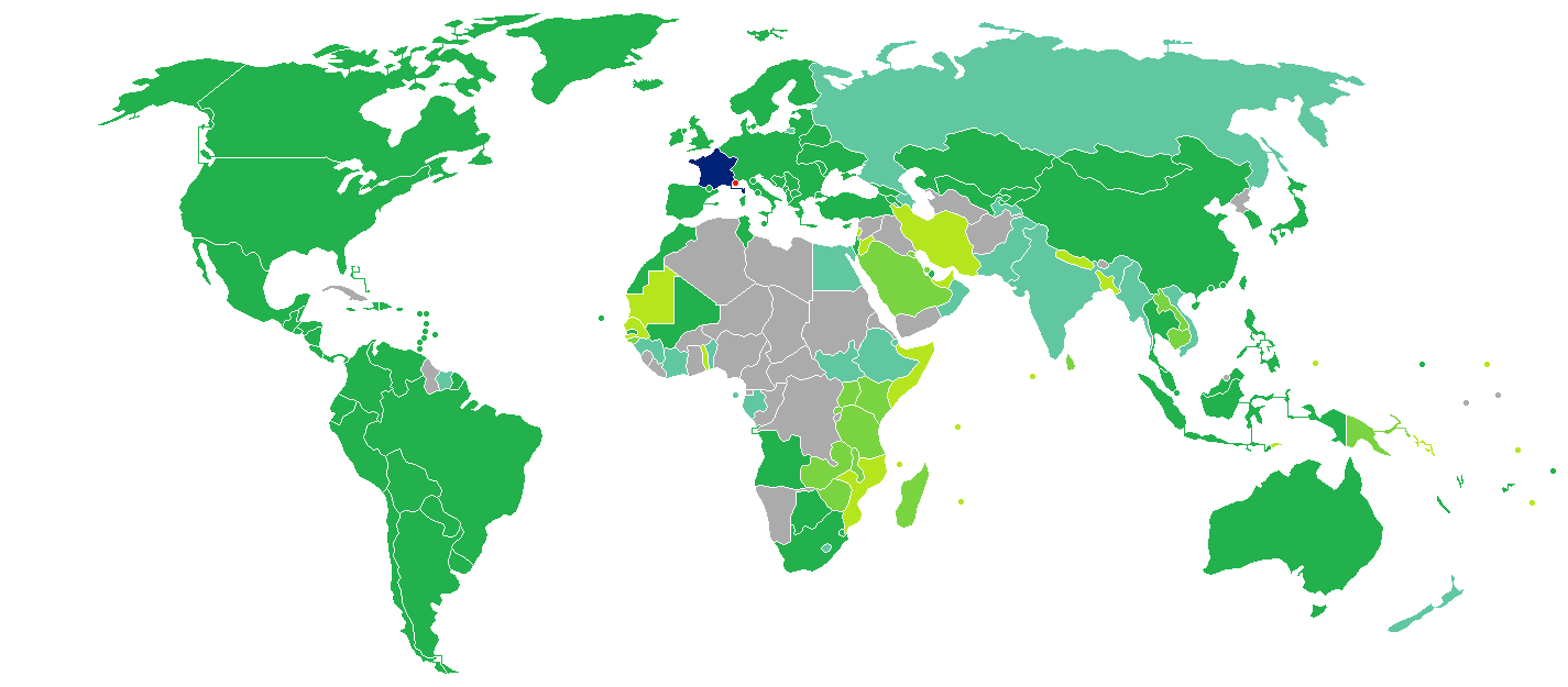 Visa requirements for Monégasque citizens Monaco Visa free access Visa on arrival eVisa Visa available both on arrival or online Visa required